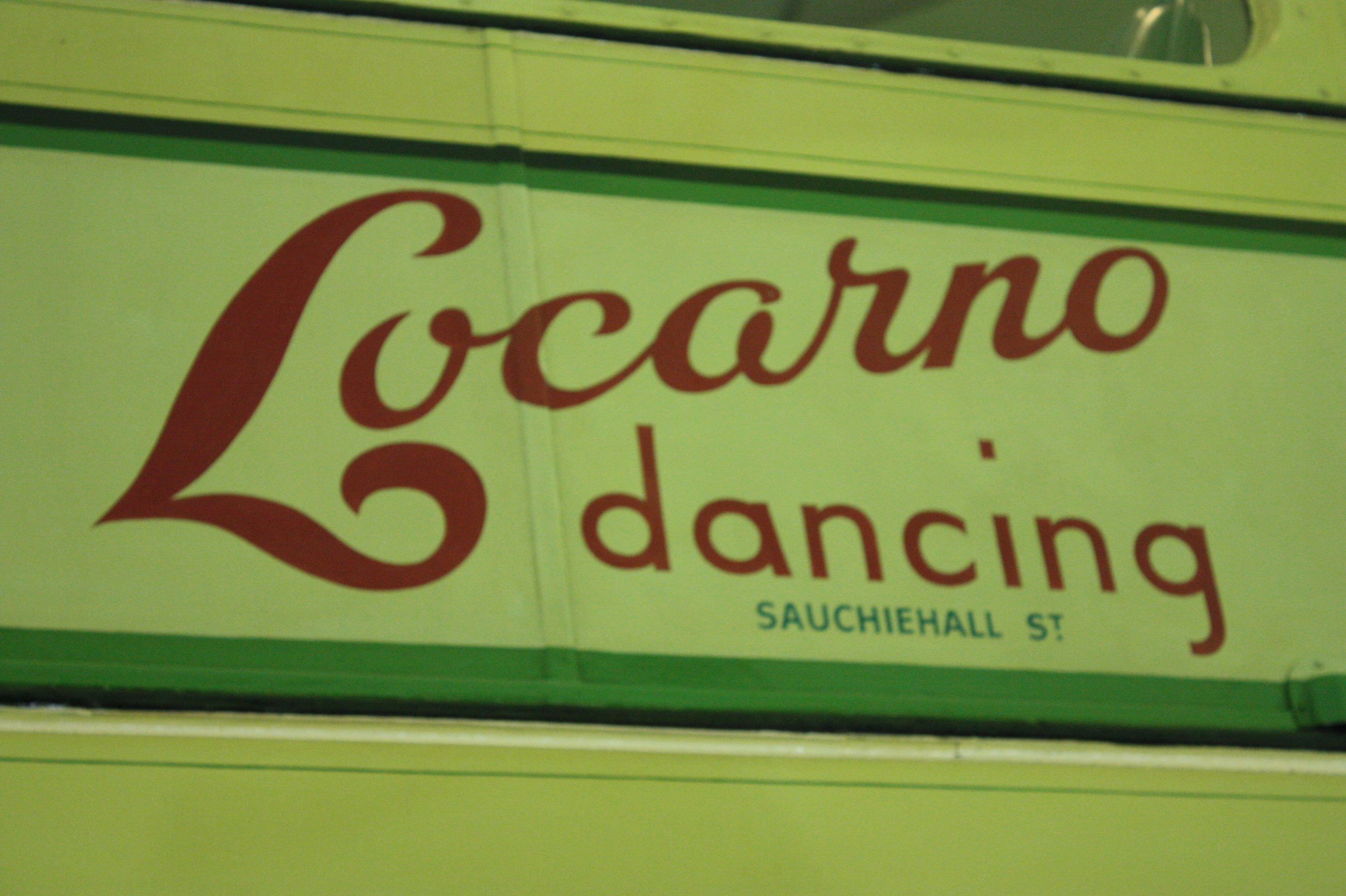 1950s advert, on a public transport, for the Locarno Ballroom on Glasgow's Sauchiehall Street[1]